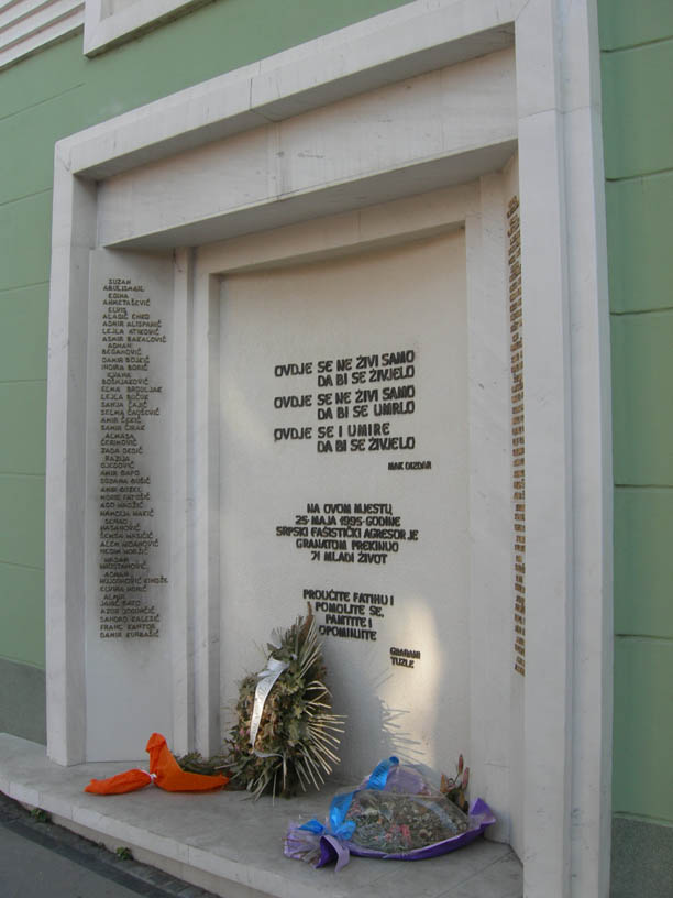 Monument in Tuzla at "Kapija" devoted to 71 young civile casualties of granate, allegedly shot from teritory held by Serb Army.